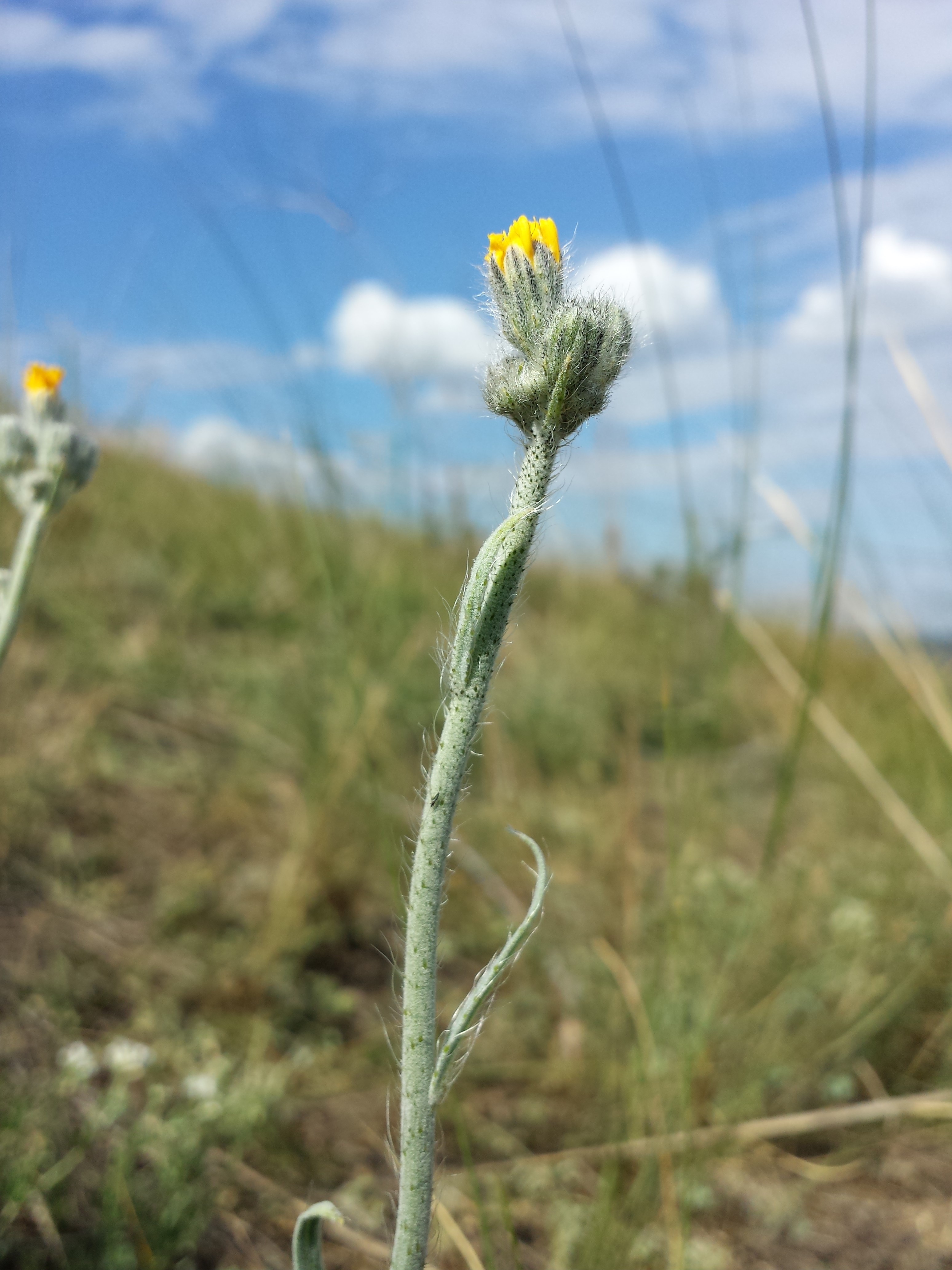 Stipe and inflorescence Taxon: Hieracium echioides (sensu Fischer et al. EfÖLS 2008 ISBN 978-3-85474-187-9; det. M. A. Fischer 2014-06-14) Location: Schweinbarther Berg, district Mistelbach, Lower Austria - ca. 330 m a.s.l. Habitat: rock steppe (lime stone)